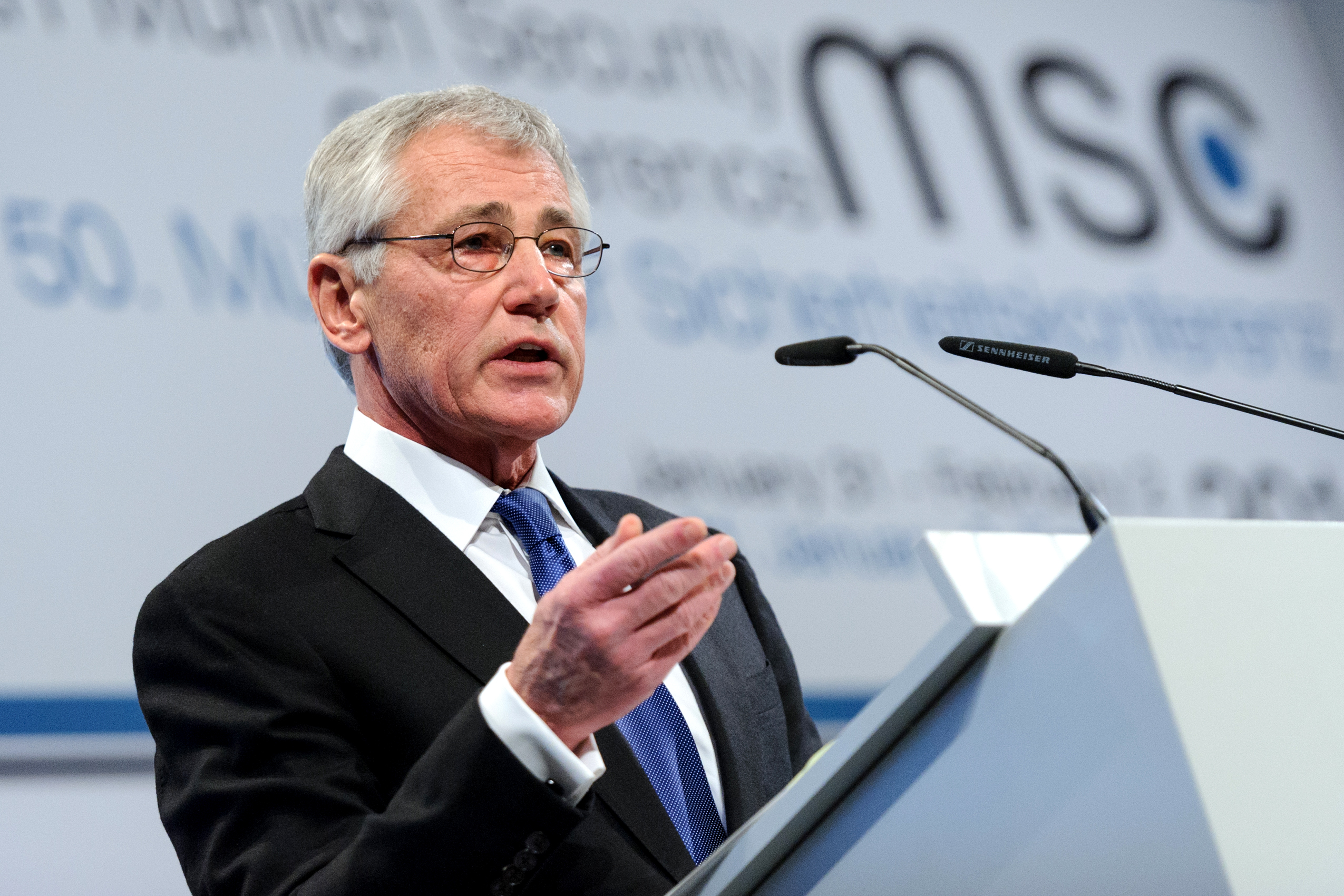 50th Munich Security Conference 2014: Chuck Hagel: Chuck Hagel (Secretary of Defense, USA).